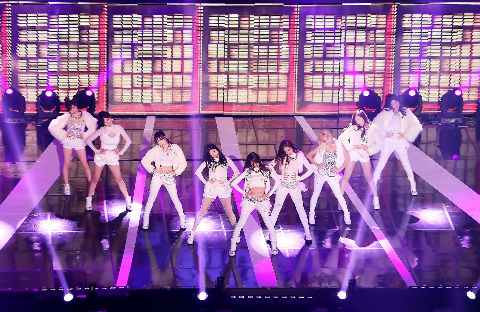 Girls' Generation at the Seoul Music Awards on January 23, 2014.